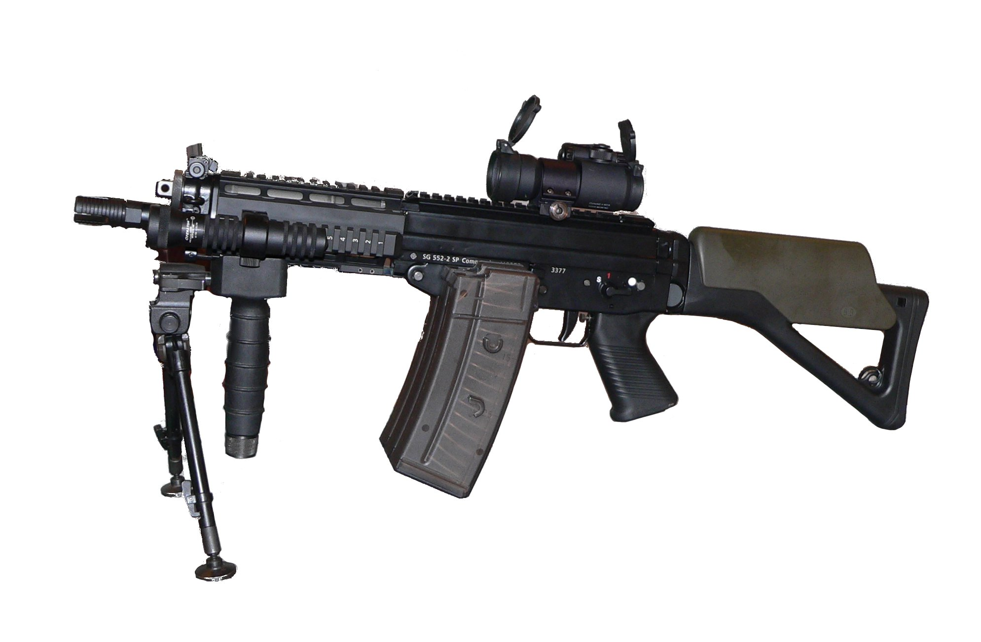 English